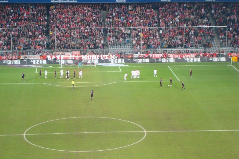 UEFA Cup 2007-08 match between Bayern Munich and Bolton Wanderers in the Allianz Arena. Result was 2-2.